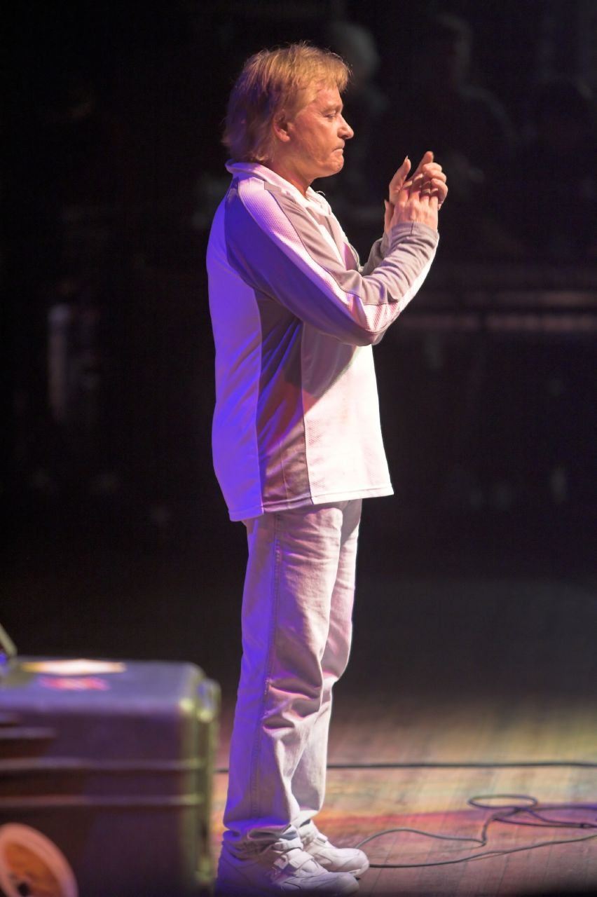 Jefferson Airplane/Starship memberMarty Balin at Monterey's Summer of Love Festival July 2007